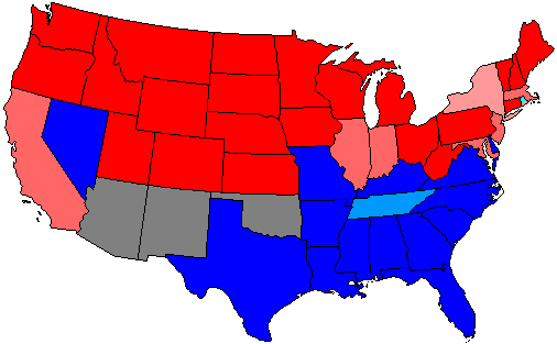 Summary of party control of U.S. house seats in the 58th United States Congress following election. Stripes indicate a tie between two or more parties. Legend: 80.1-100% Democratic seat majority 60.1-80% Democratic seat majority 60% or less Democratic seat plurality 60% or less Republican seat plurality 60.1-80% Republican seat majority 80.1-100% Republican seat majority